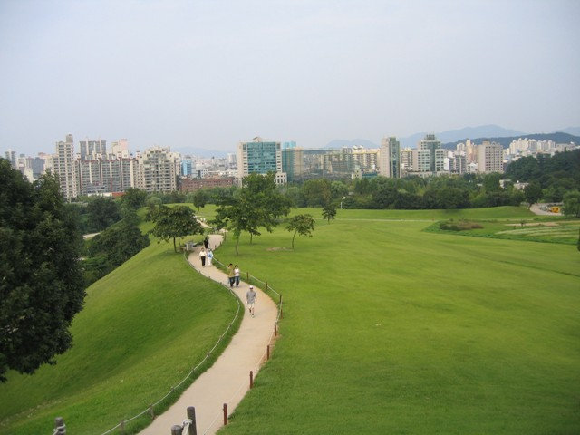 Remnants of the former Baekje capital of Wiryeseong, currently the Seoul Olympic Park in the southern districts of that city.